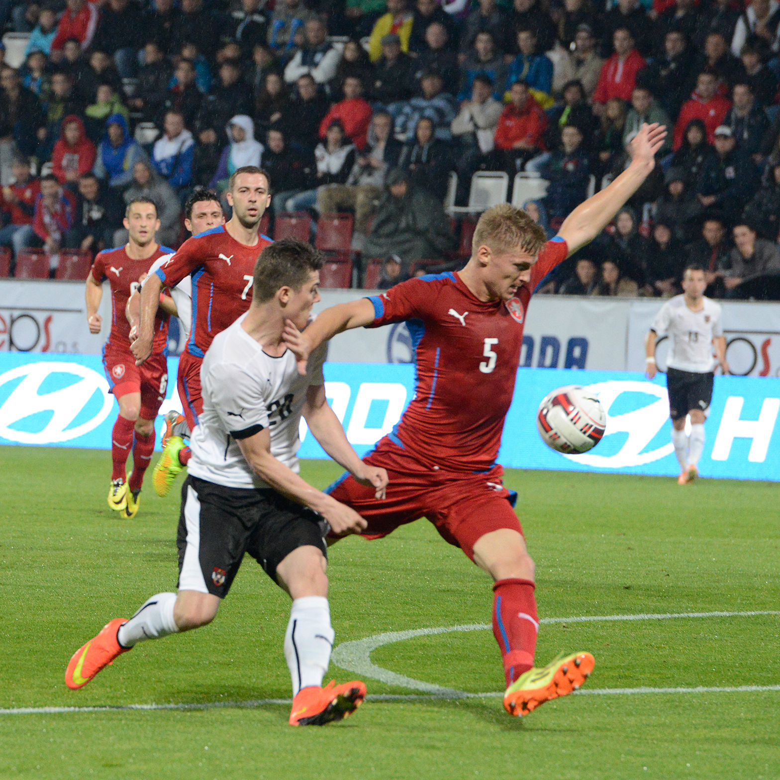 Soccer game Czechia - Austria 2014